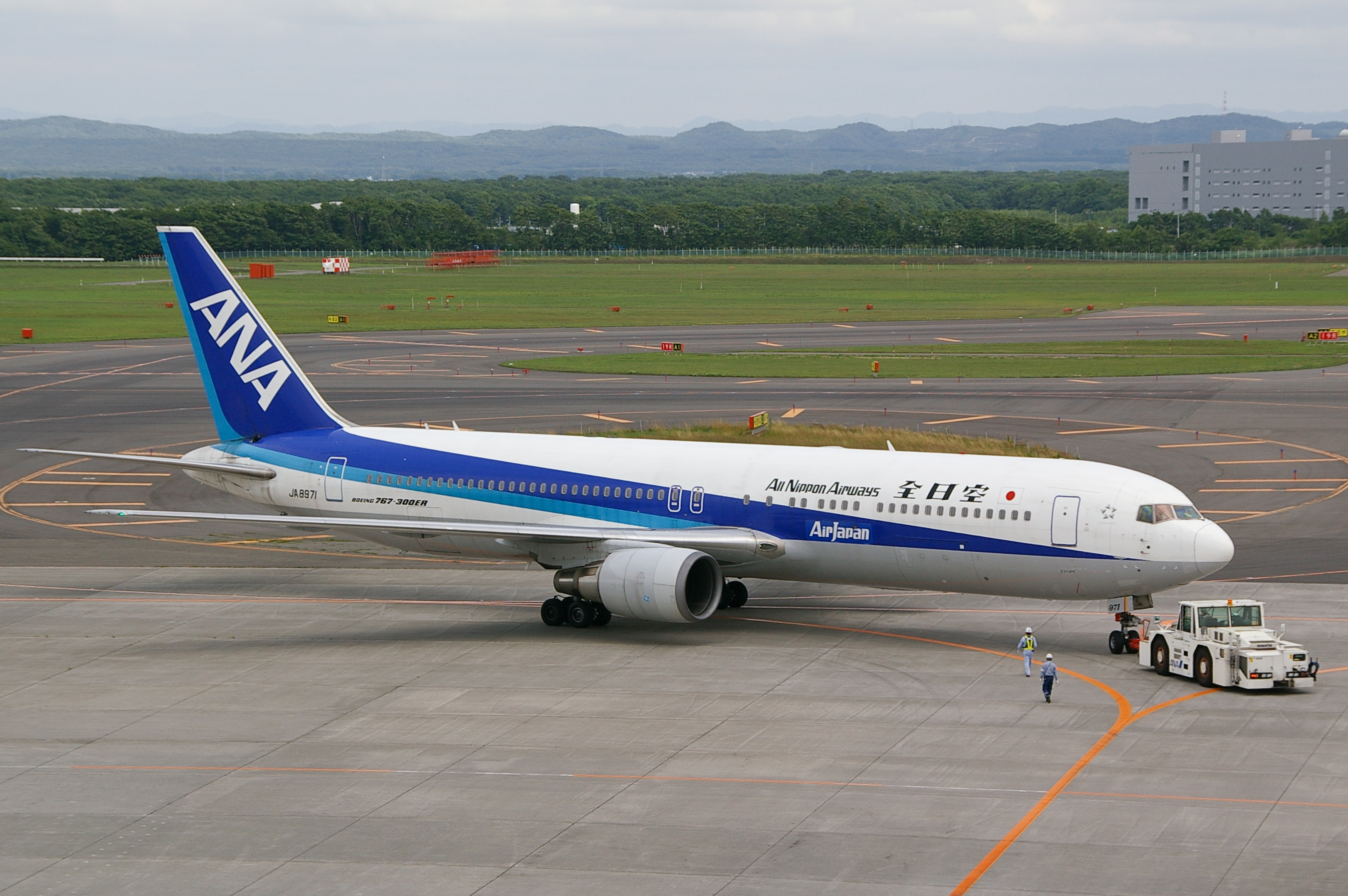 Photograph of Air Japan's Boeing 767-300ER (JA8971) taken from the observation deck of New Chitose Airport passenger terminal building in Chitose, Hokkaido, Japan.